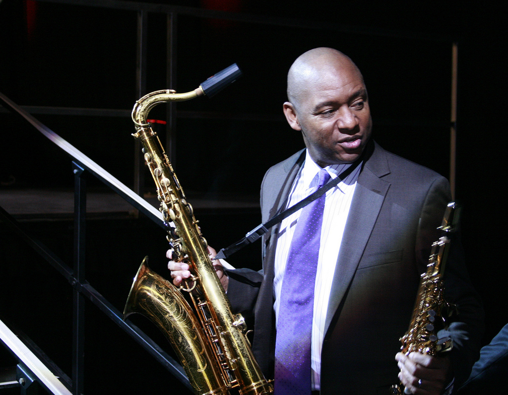 Branford Marsalis at 2011 World Youth Peace Summit event in West Hartford, CT